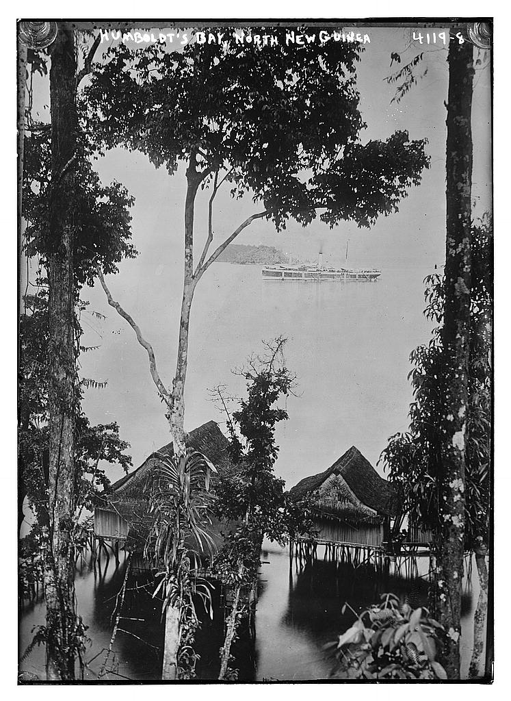 Bain News Service,, publisher. Humboldt's Bay, North New Guinea [between ca. 1915 and ca. 1920] 1 negative : glass ; 5 x 7 in. or smaller. Notes: Title from unverified data provided by the Bain News Service on the negatives or caption cards. Forms part of: George Grantham Bain Collection (Library of Congress). Format: Glass negatives. Repository: Library of Congress, Prints and Photographs Division, Washington, D.C. 20540 USA, General information about the Bain Collection is available at Higher resolution image is available (Persistent URL): Call Number: LC-B2- 4119-8